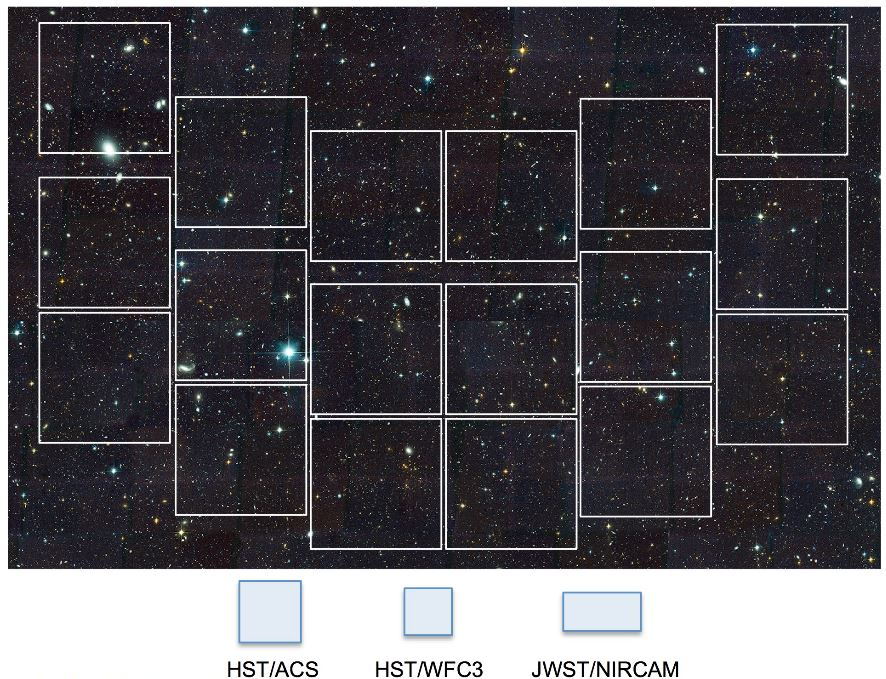 WFIRST field view compared with Hubble et JWST